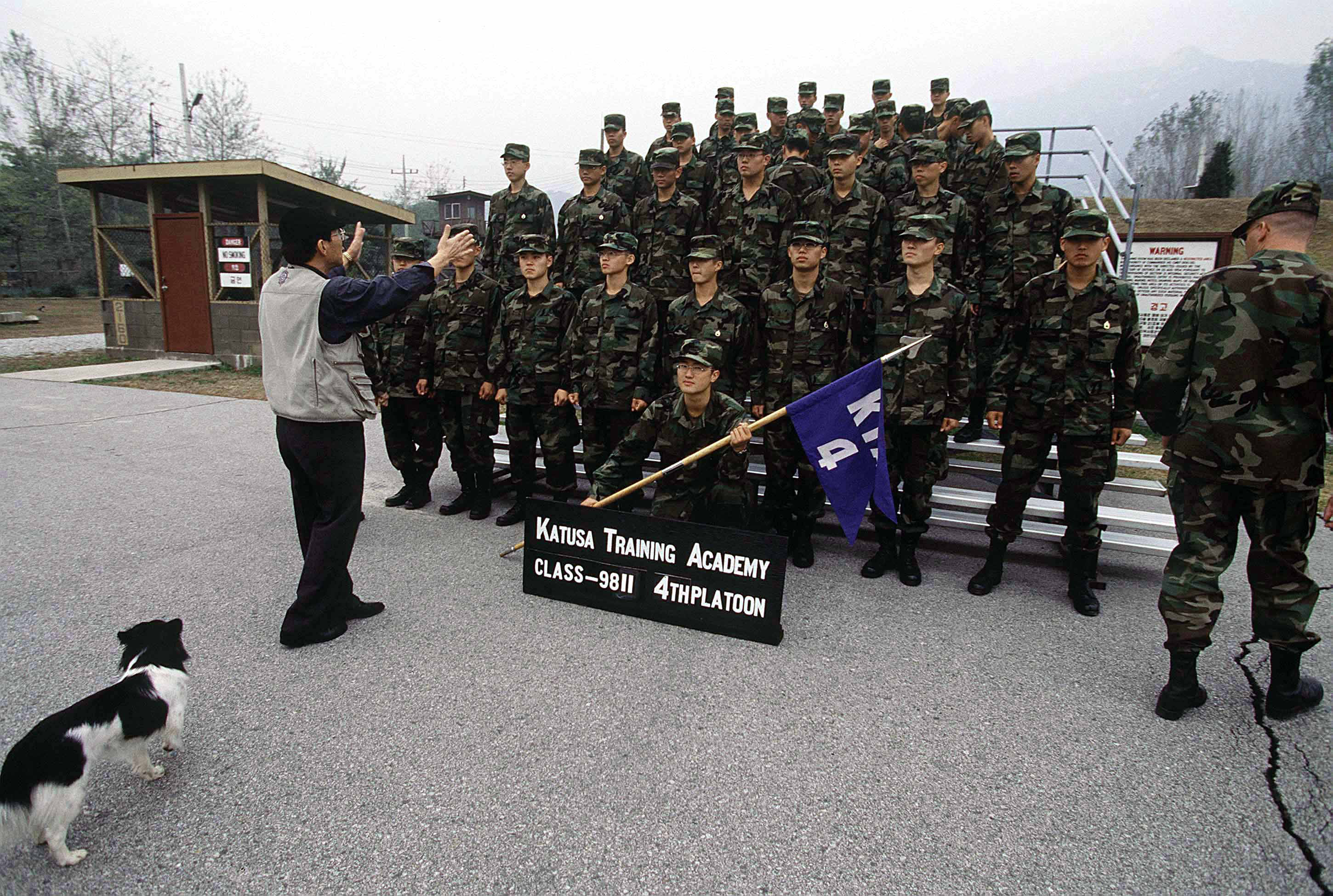 A platoon of Korean Augmentees to the US Army (KATUSA) soldiers, pose for a group photo a week before graduation from the KATUSA Training Center, Camp Jackson, Republic of Korea, on Oct. 30, 1998. Originally begun in 1950, the KATUSA program was designed to augment US fighting forces just after the breakout of the Korean War. After the armistice KATUSA soldiers remained with 8th Army units to enhance mission capability. Korean enlistees attend a 20 day training program at the center where they refine their English language skills, and learn about American culture as well as US Army structure and methods.